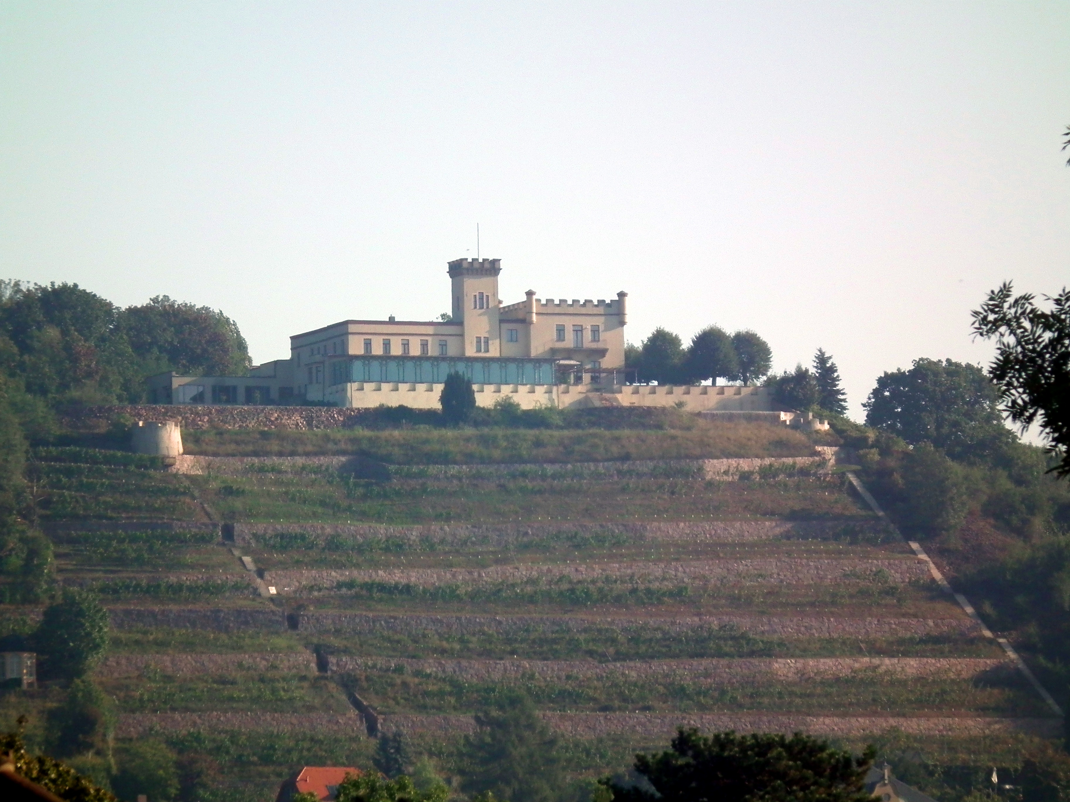 Friedensburg, Radebeul, Saxony, Germany